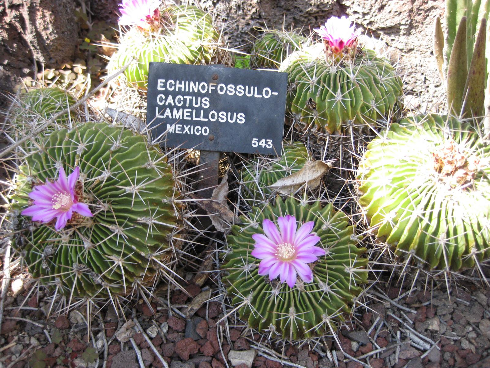 Photographed at Huntington Gardens (Los Angeles, California) in March. Echinofossulocactus is now Stenocactus